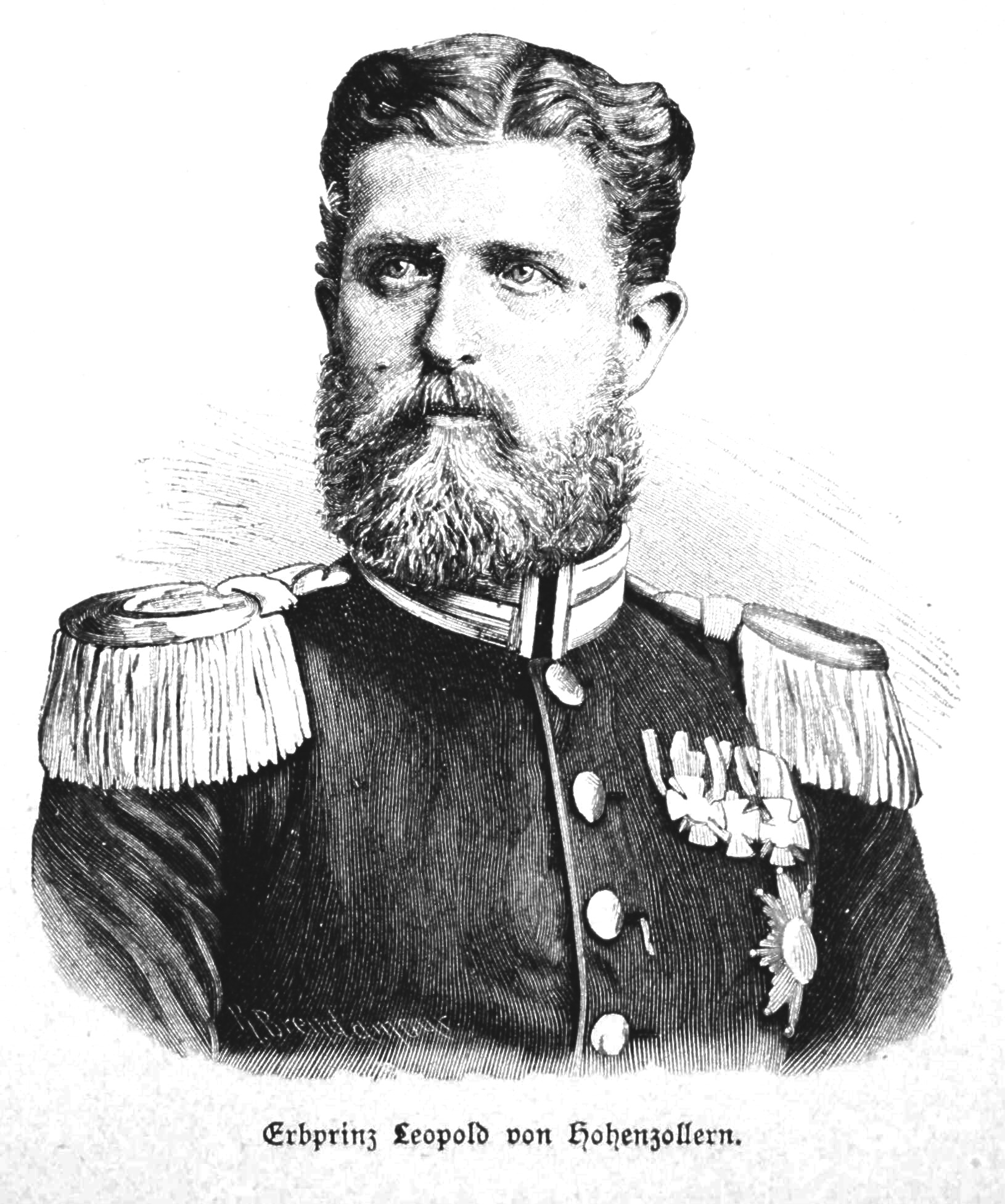 hereditary-prince Leopold von Hohenzollern